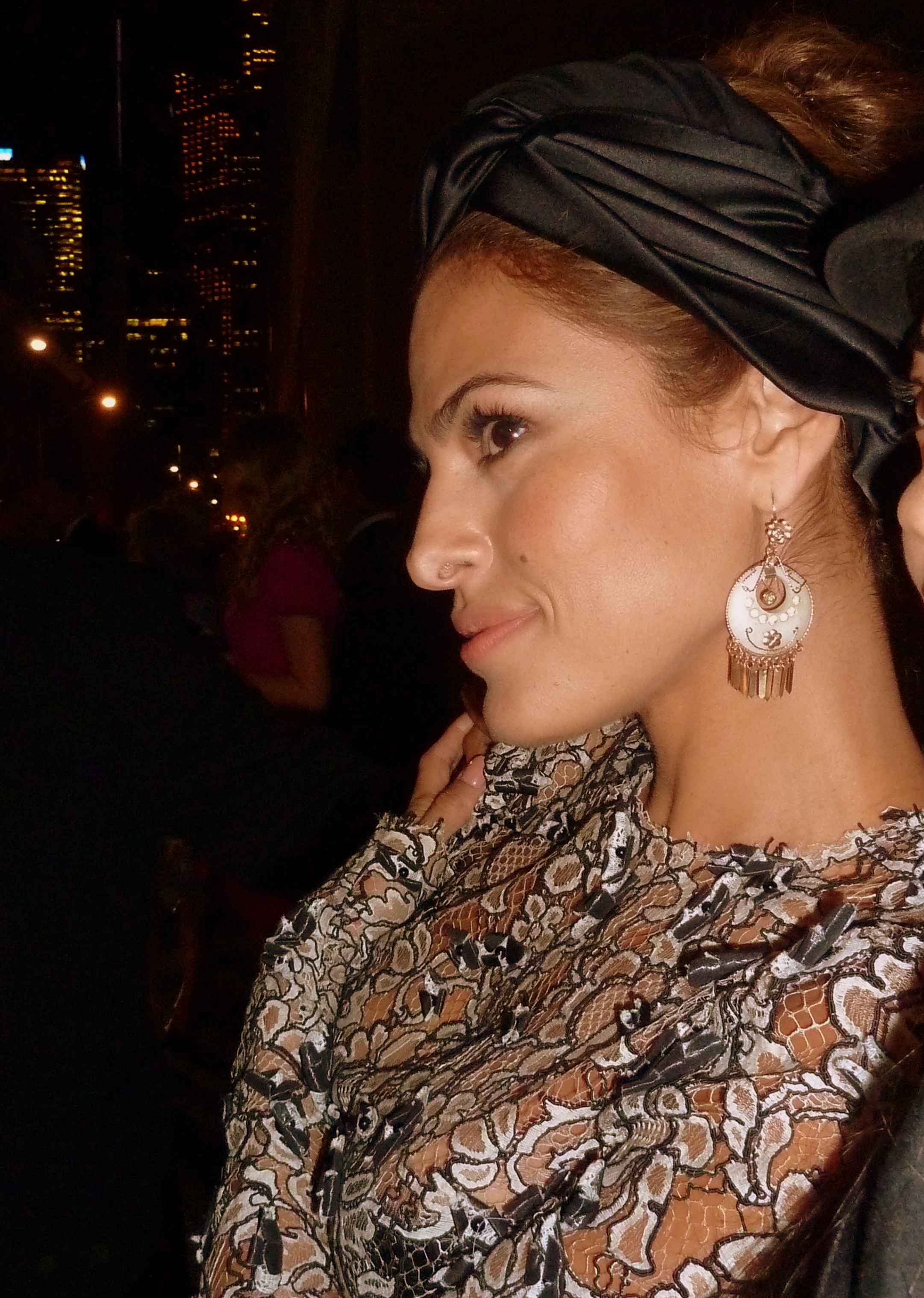 Eva Mendes at the premiere of Place Beyond the Pines, in Toronto Film Festival 2012.